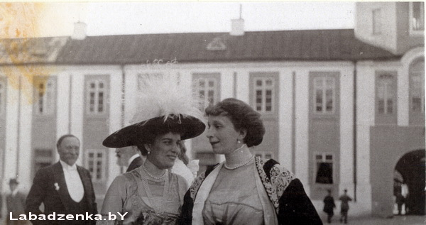 Edward Woynillowicz (1847–1928), leader of Minsk agricultural society, and the Radziwills' guests